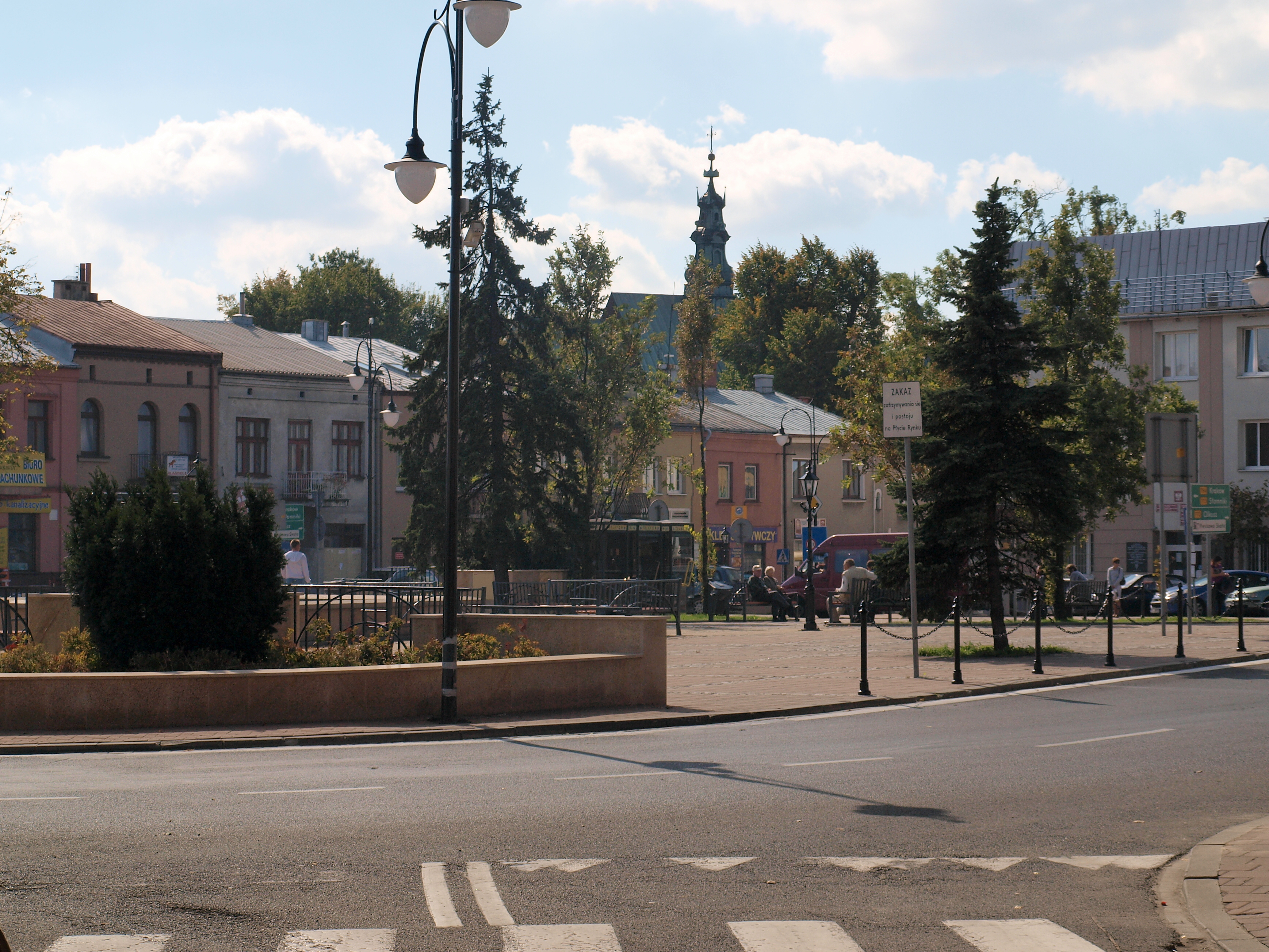 Skała, Province małopolskie, Kraków County - Market square